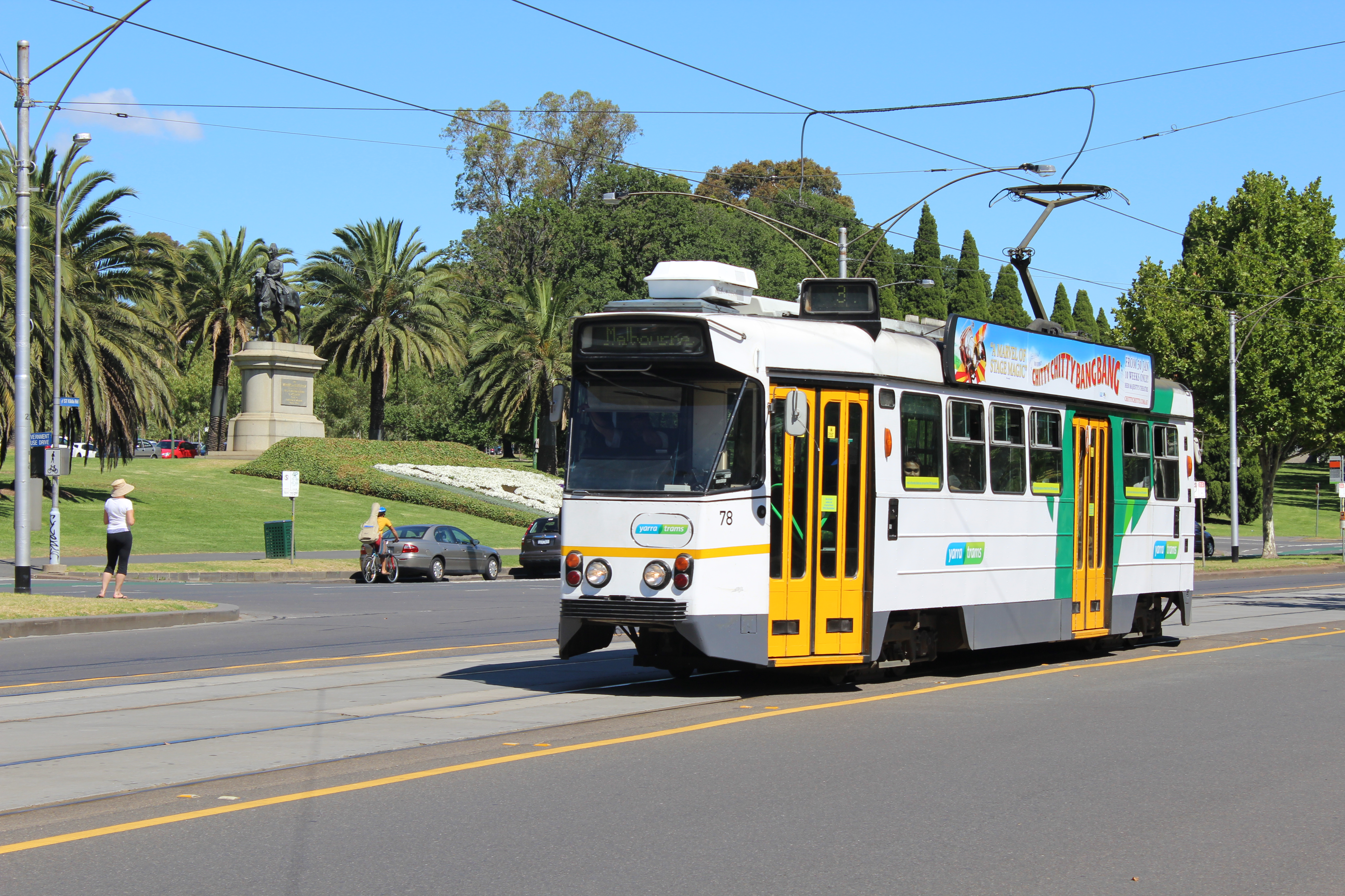 Z1 78 on St Kilda Road operating a route 3 service to Melbourne University, 2013.